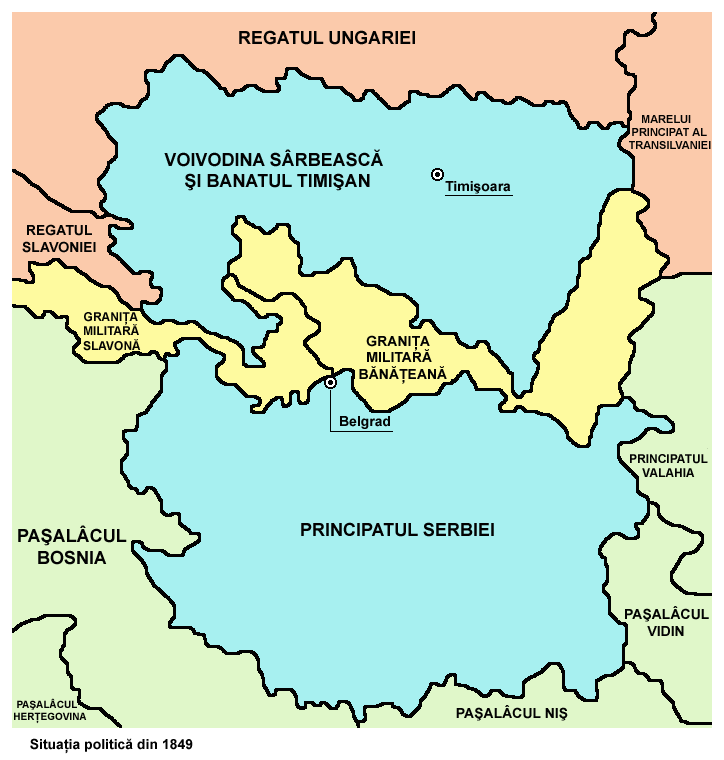 Two autonomous historical territories named Serbia: 1. Principality of Serbia within Ottoman Empire (1833-1878), and 2. Voivodeship of Serbia and Banat of Temeschwar within Austrian Empire (1849-1860).